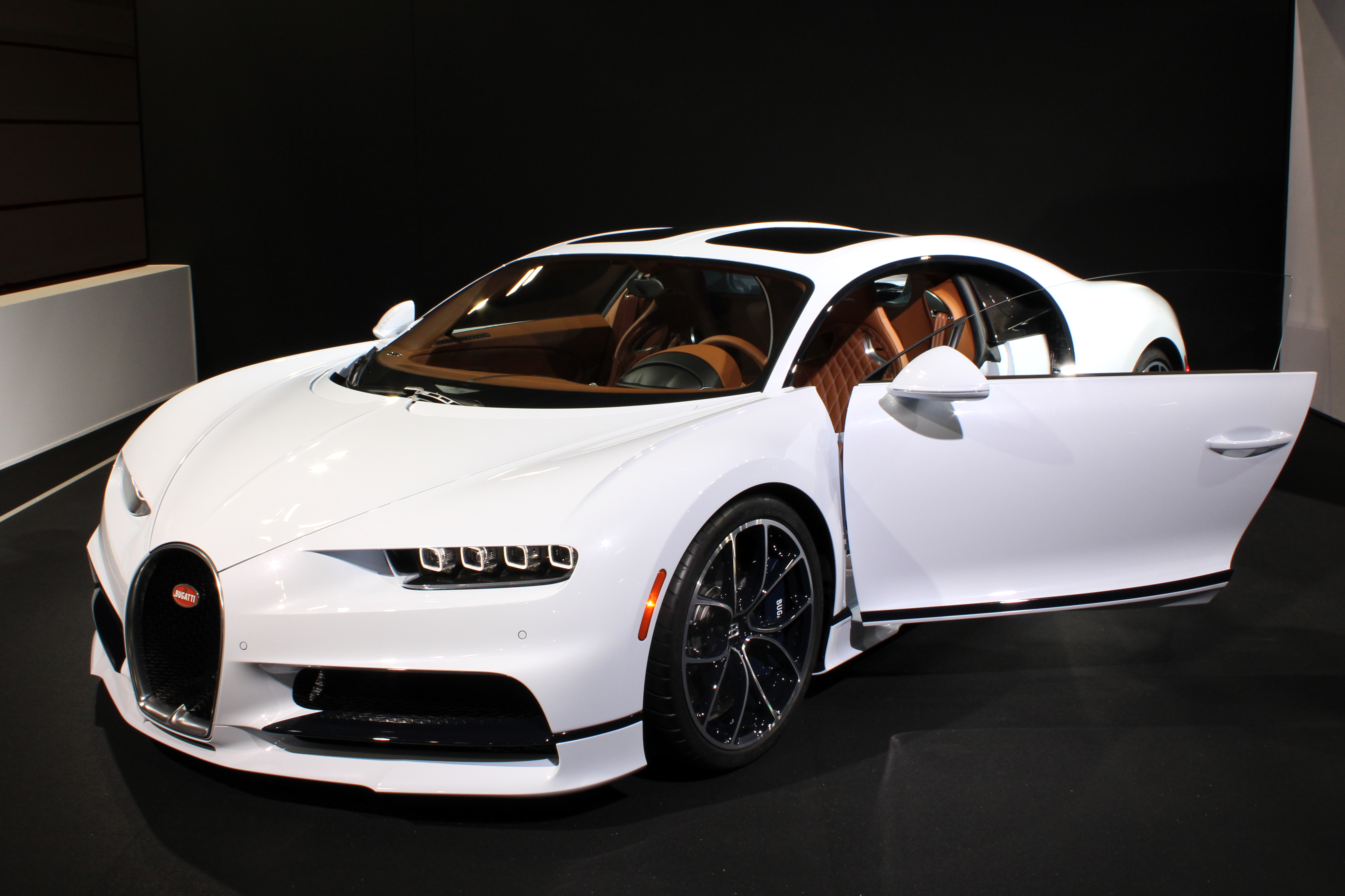 Bugatti Chiron Sky View at Paris Motor Show 2018